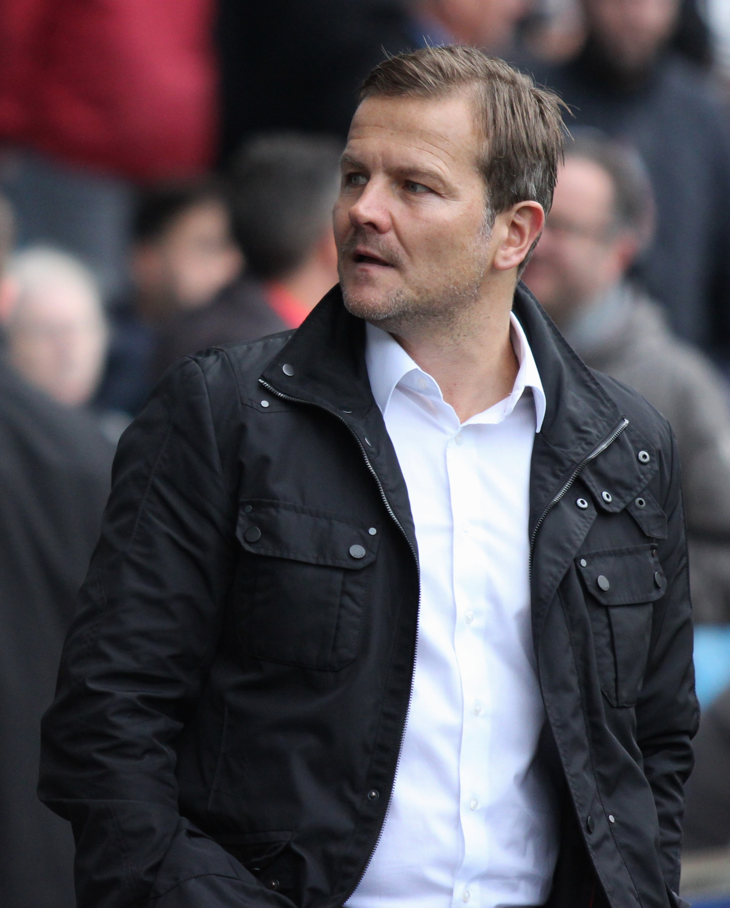 Swindon Town manager Mark Cooper before the game against Millwall.